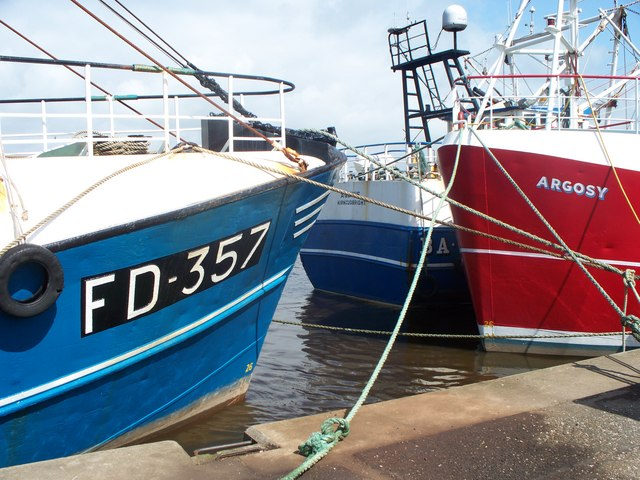 Fishing Boats On River Dee at Kirkcudbright